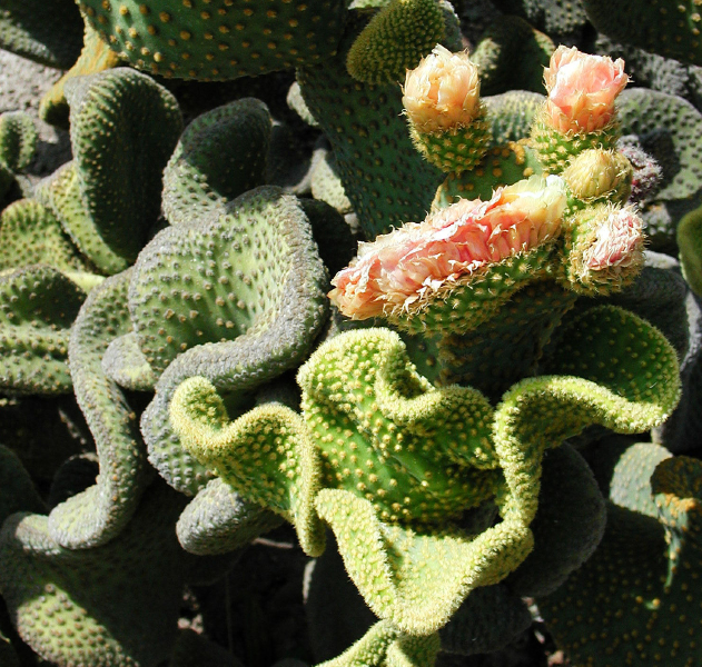 Opuntia microdasys 'Gold Swirl'